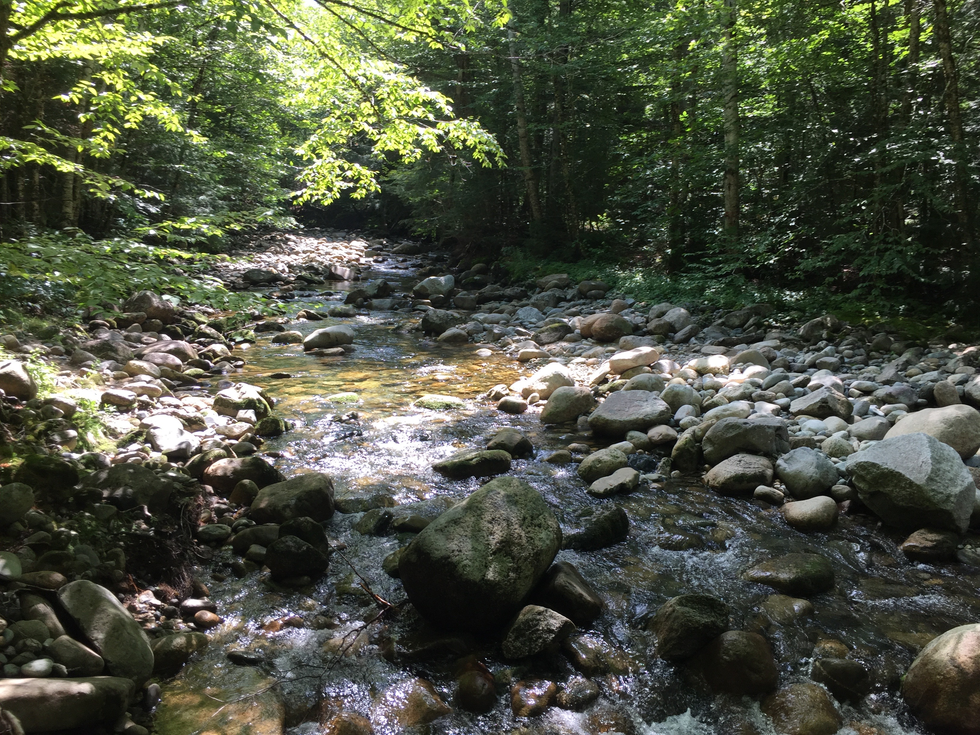 The North Branch Gale River in the White Mountain National Forest, New Hampshire